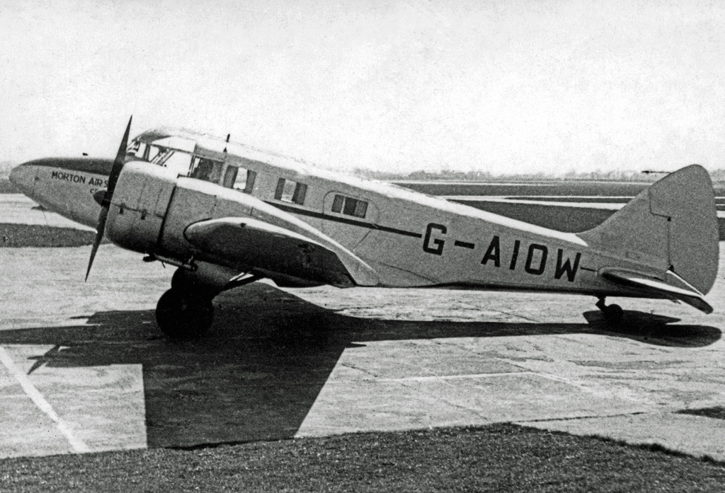 Airspeed Consul (Oxford conversion) of Morton Air Services at Manchester (Ringway) Airport in 1951